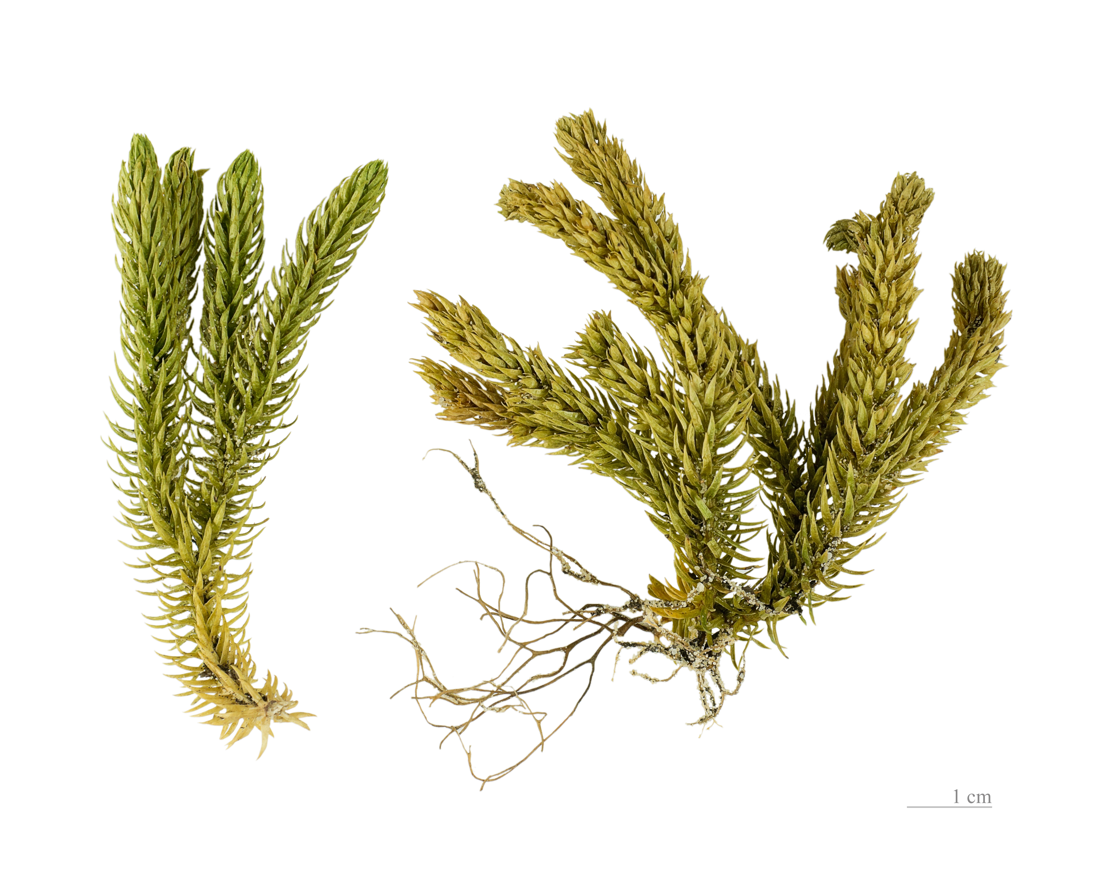 Northern firmoss, dried whole plant. Provenance : Pass Larech in Ariège, France.